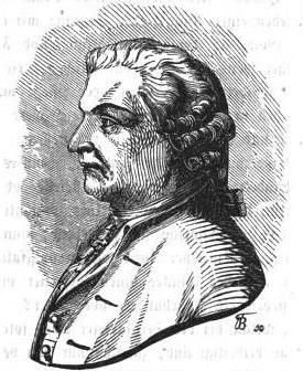 Portrait of Alexander Gottschalk von Sengbusch